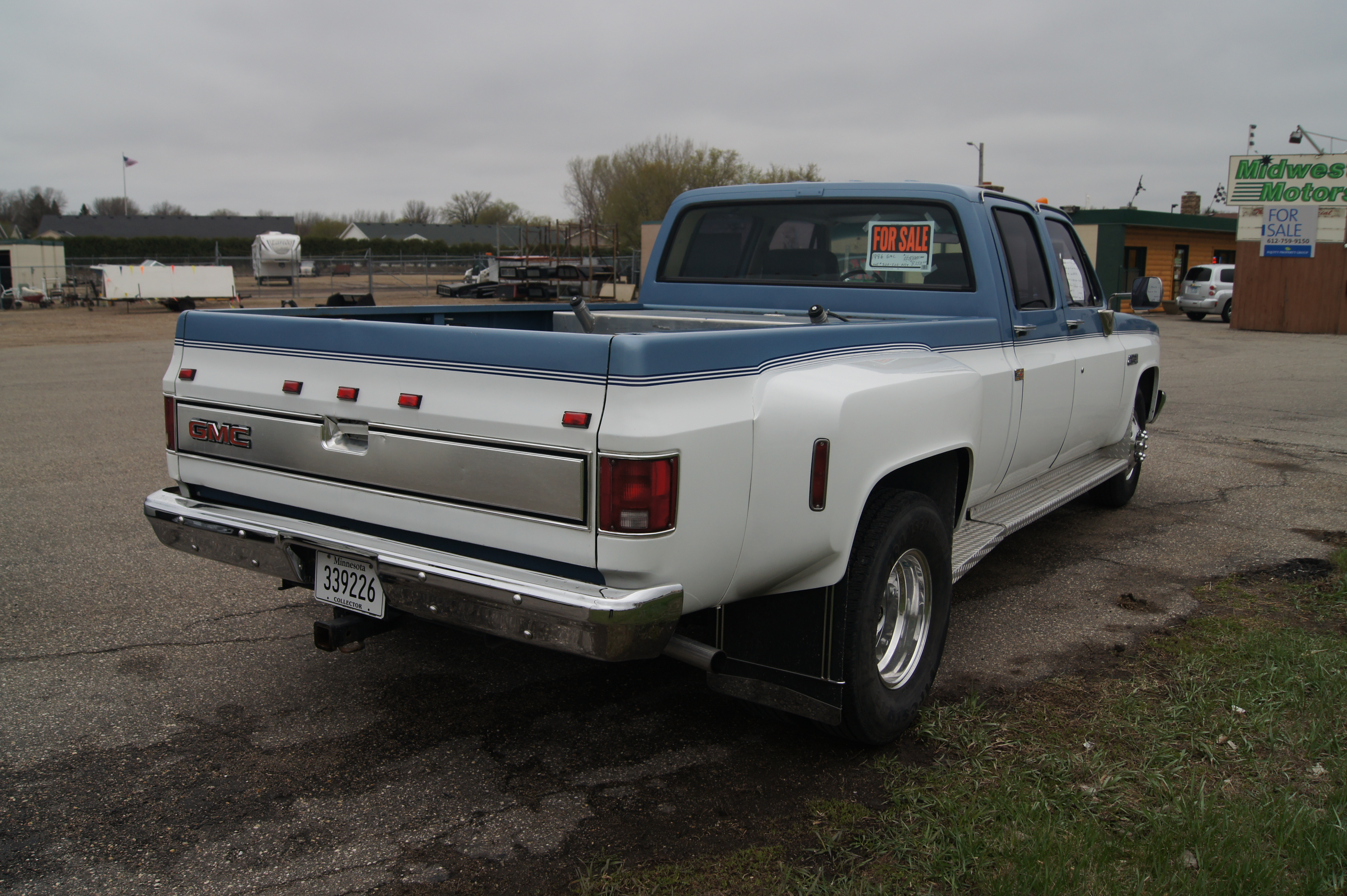 454 V8 Click here for more car pictures at my Flickr site.